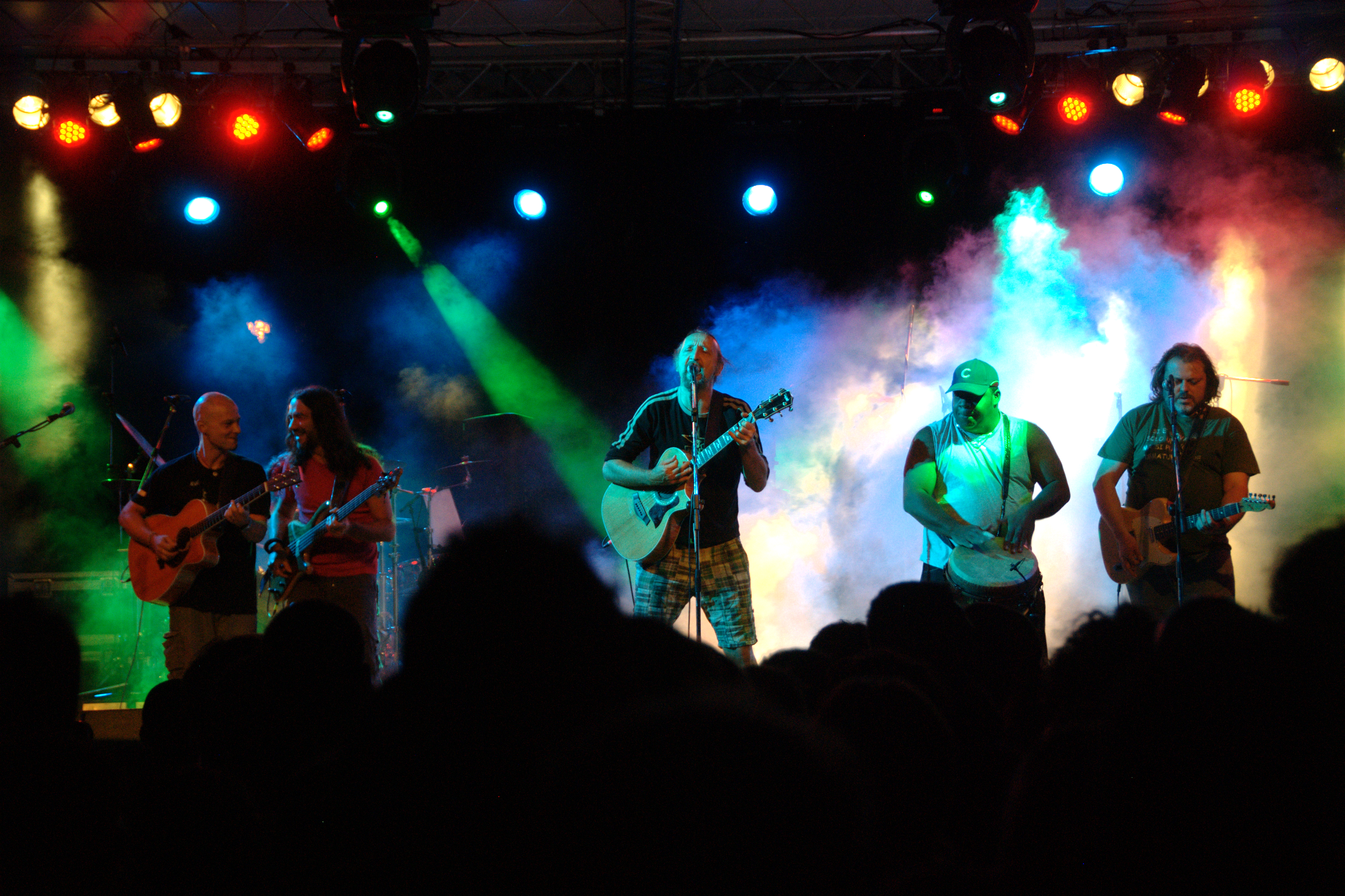 Bandabardò in Levico Terme (province of Trento)